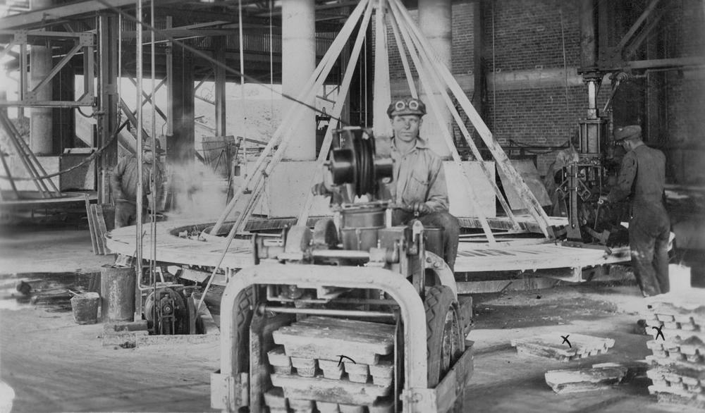 Interior view of the smelting works, Mount Isa, 1933 A worker is driving a fork lift loaded with lead bars while in the background other workers are working with a machine which possibly makes the lead bars.